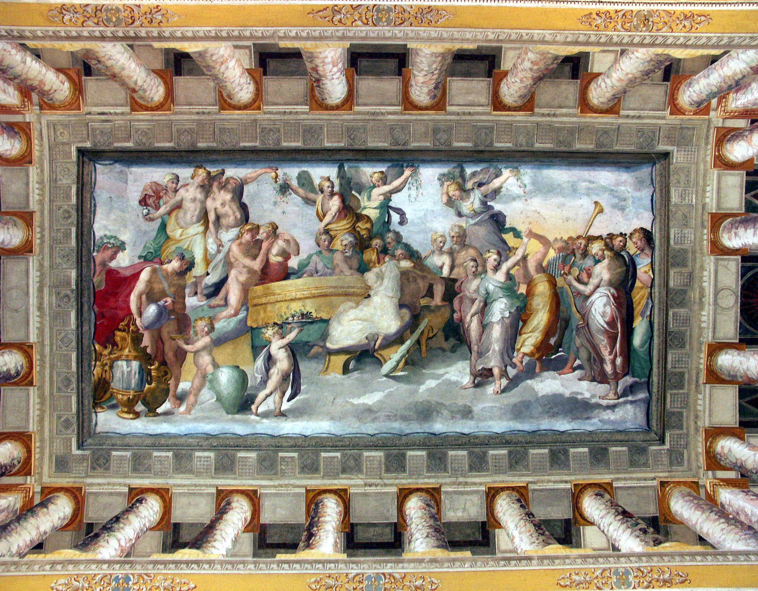 Fresco, Interior of Villa d'Este, town Tivoli, Italy